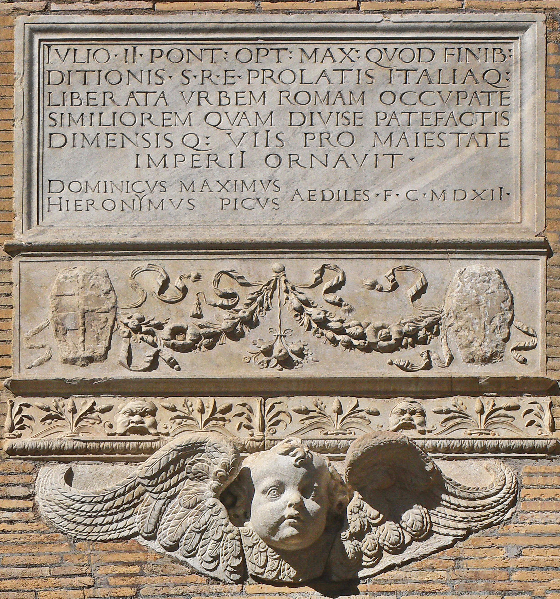 Inscription of Pope Julius II. 1512 Via Curato-Banchi